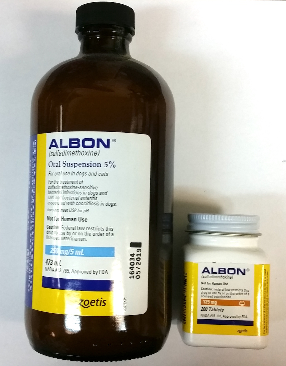 Suspenion and pill form of Albon, the veterinary form of sulfadimethoxine